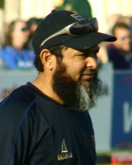 Mushtaq Ahmed at the County Ground Hove in May 2009